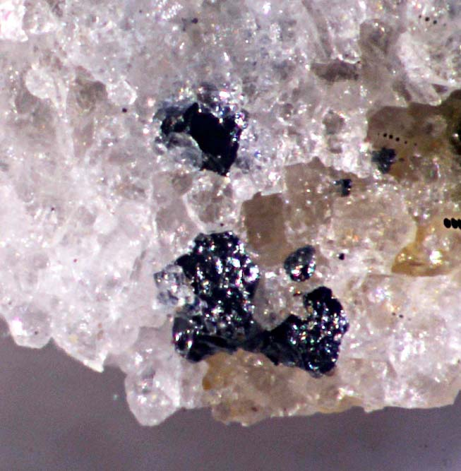 Black sharp crystals of the very rare mineral rinmanite on a contrasting matrix from the second known worldwide locality for the mineral: Babuna Valley, Jakupica Mountains, Nežilovo, Veles, Macedonia.